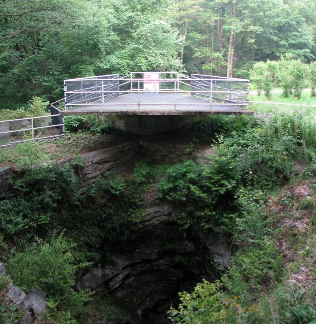 Panoramic view of the pothole at Archbald Pothole State Park is a PA state park in Archald, Lackawanna County, Pennsylvania in the United States. Panorama of 2 photos, This panoramic image was created with Autostitch (stitched images may differ from reality).